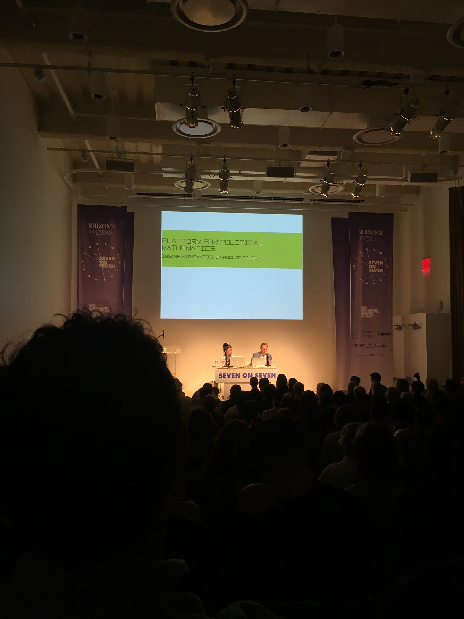 Artist Hito Steyerl and mathematician Grant Olney Passmore presenting their joint work at Rhizome's Seven on Seven 2016 at the New Museum, New York.